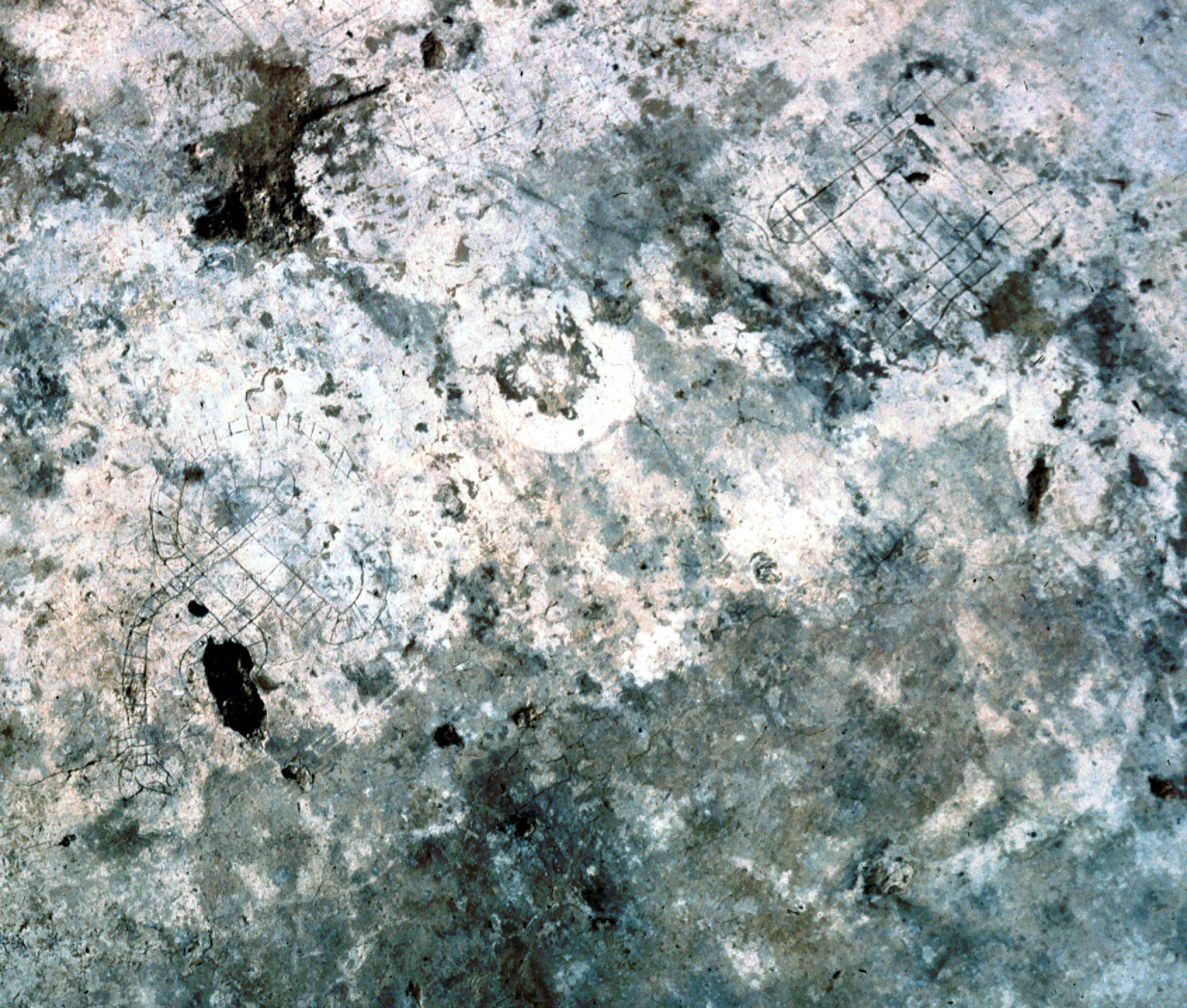 Teotihuacan, Mexico: patolli game pattern on stucco floor.